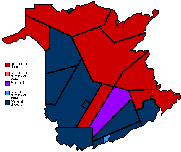 Results by district of New Brunswick general election. Many of the districts returned more than one member, the key is: dark red - all Liberals light red - Liberal plurality purple - even split of Liberals and Progressive Conservatives (PCs) light blue - PC plurality dark blue - all PCs